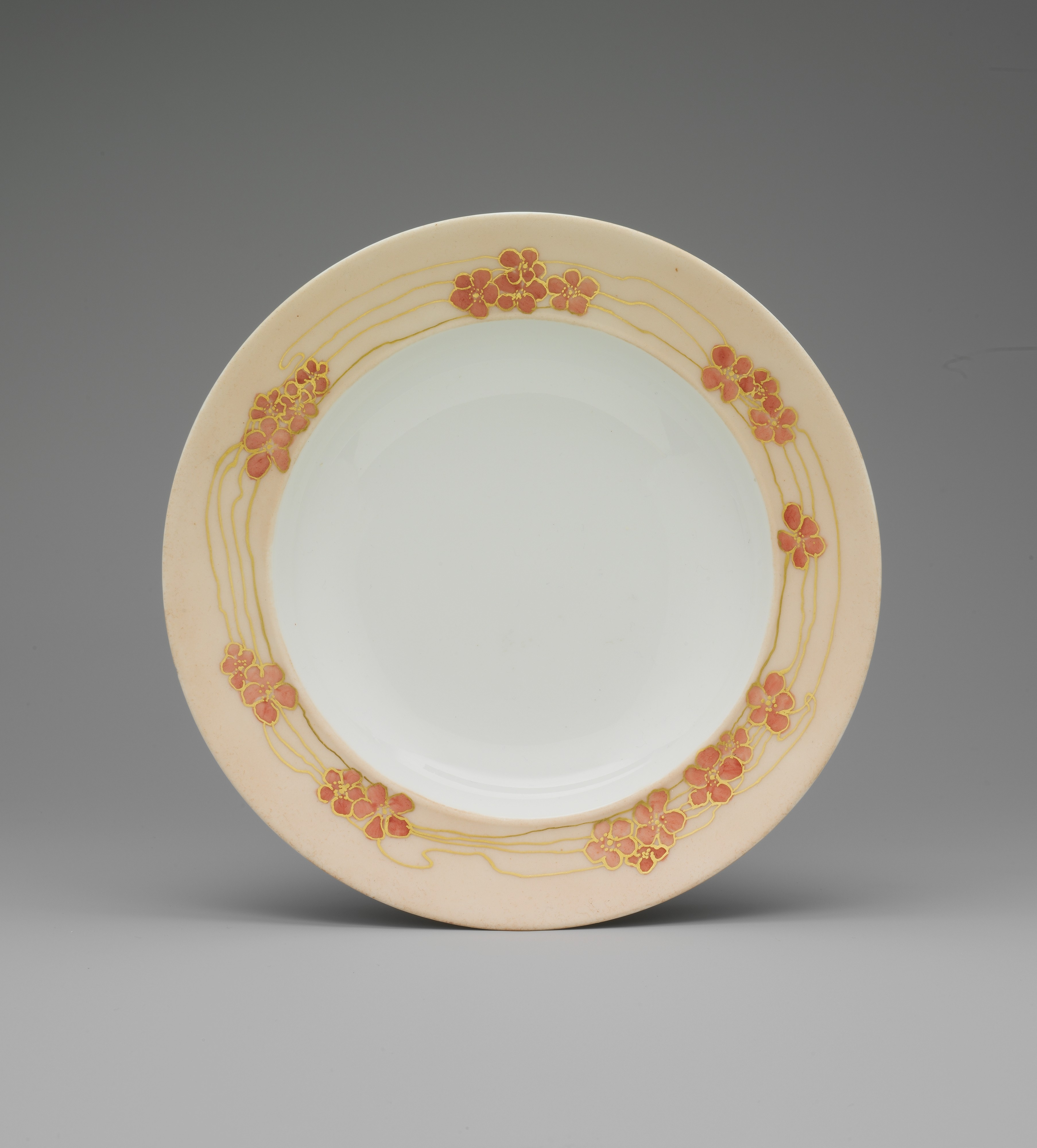 American; Soup bowl; Ceramics